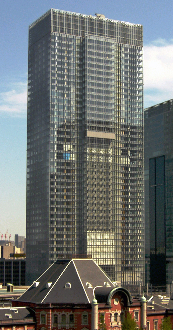 “Gran_Tokyo_SouthTower”.Building Japan